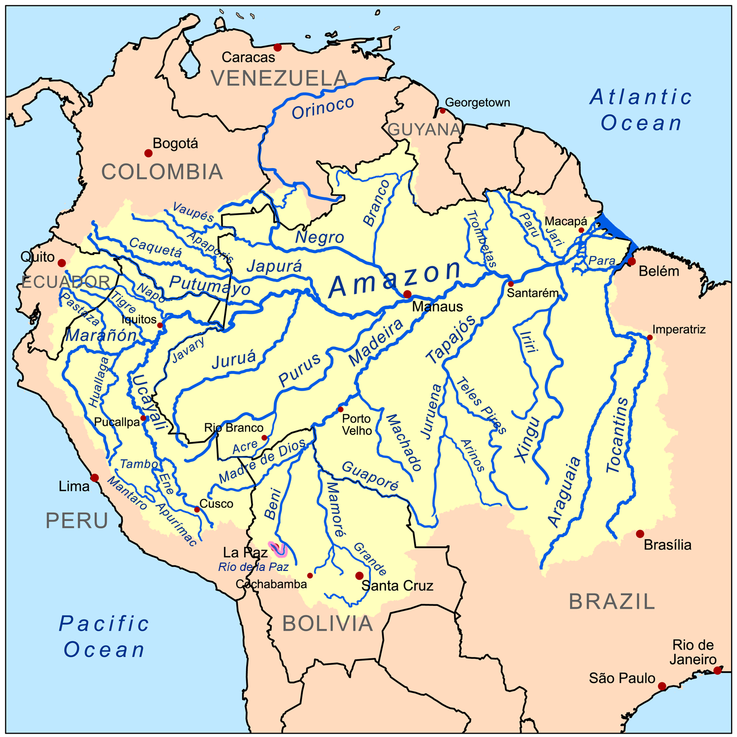 Description Map of the Amazon River drainage basin including Río de la Paz. Date22 April 2010, 07:19 (UTC)Source Amazonriverbasin_basemap.png Author Amazonriverbasin_basemap.png: Kmusser derivative work: Meister (talk) Map of the Amazon River drainage basin including Río de la Paz.